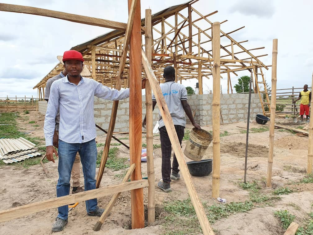 Dazzle farms construction ongoing in Abuja Nigeria